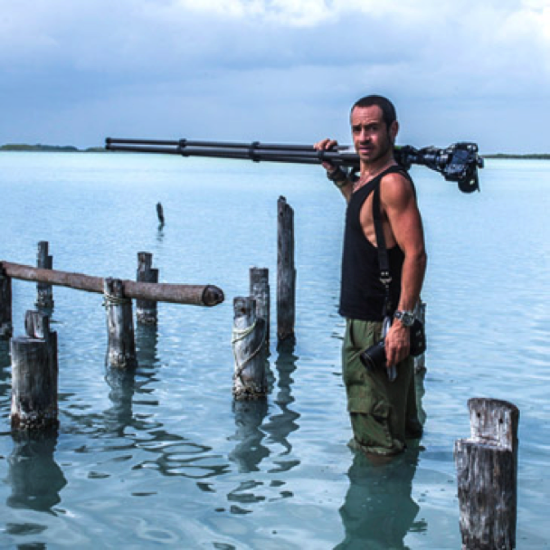 Mexican photographer Pepe Soho at work.